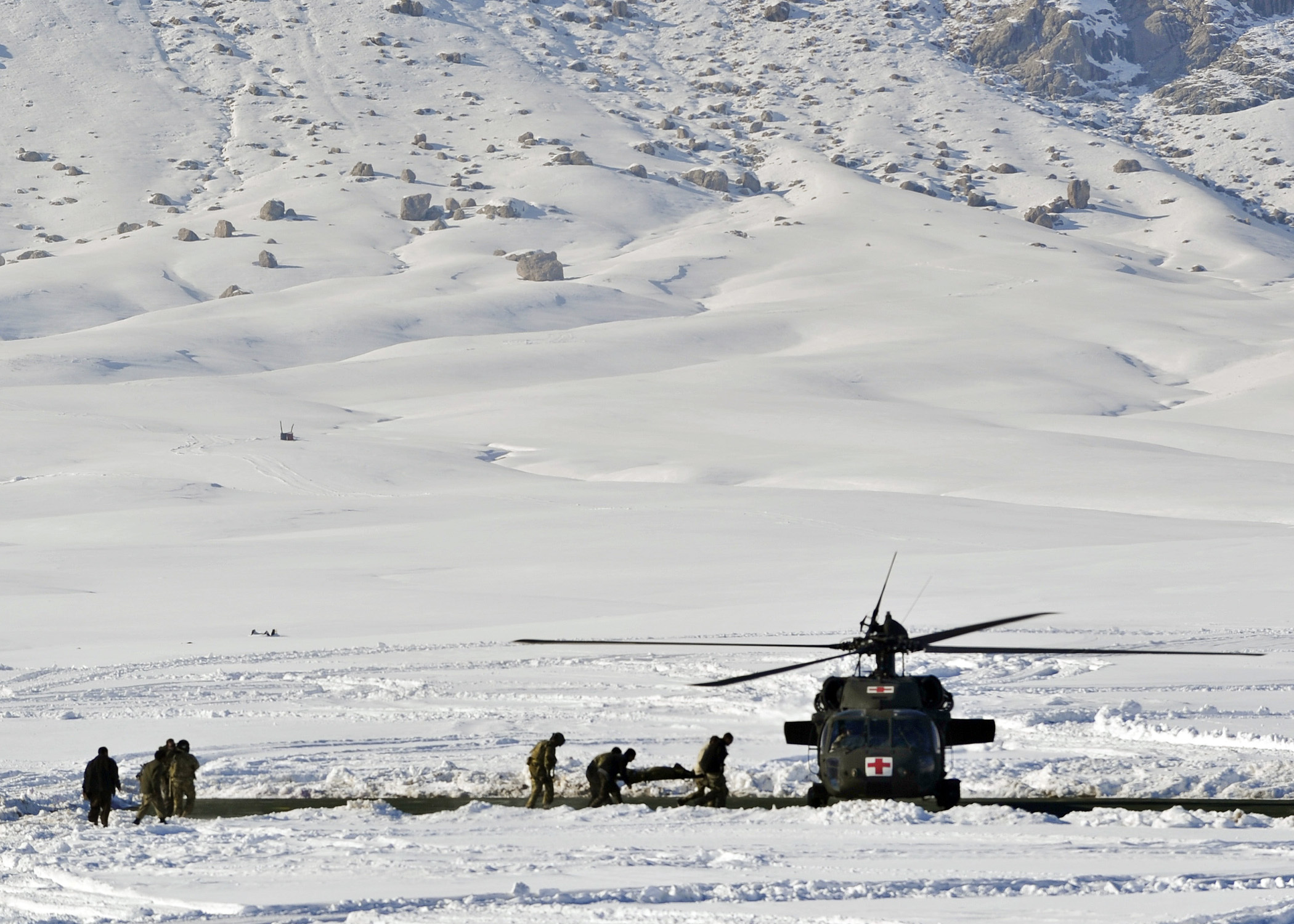 Afghan police and coalition special operations forces load a police member needing medical care onto an MH-60 Black Hawk helicopter during a medical evacuation in the Shah Joy district in Afghanistan's Zabul province on Jan. 27, 2012. Helicopters provide the fastest way to transport people with medical needs from the country's rural areas to medical facilities on larger coalition bases. DoD photo by Petty Officer 2nd Class Jon Rasmussen, U.S. Navy. (Released)